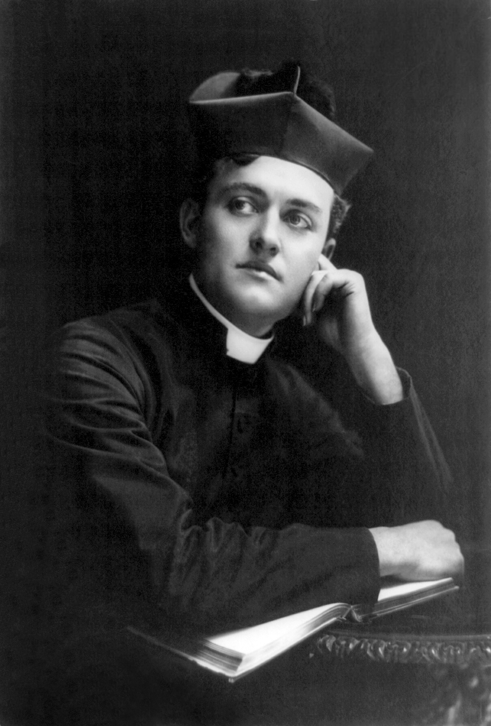 Richard Bennett as Father Anselem, in "A Royal Family"